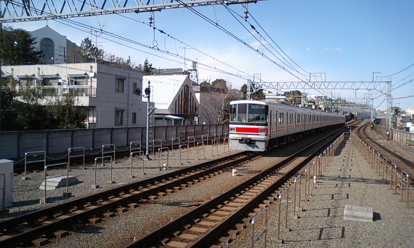 Tokyu Meguro Line(inside) and Toyoko Line(outside) between Tamagawa sta. and Den-en-chofu sta.